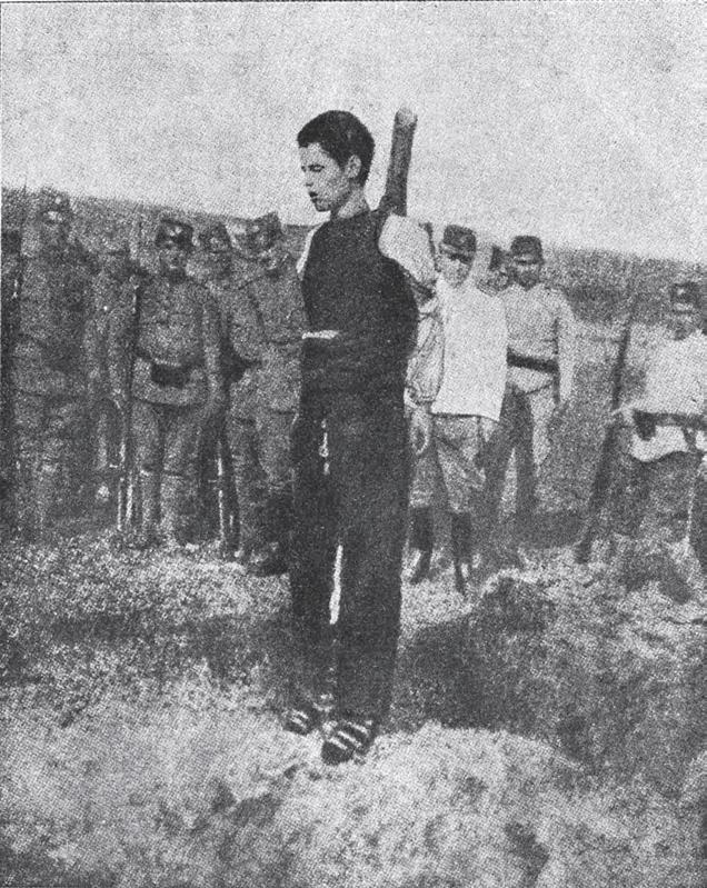 Portrait of Bulgarian revolutionary from IMRO Kiril Gligorov